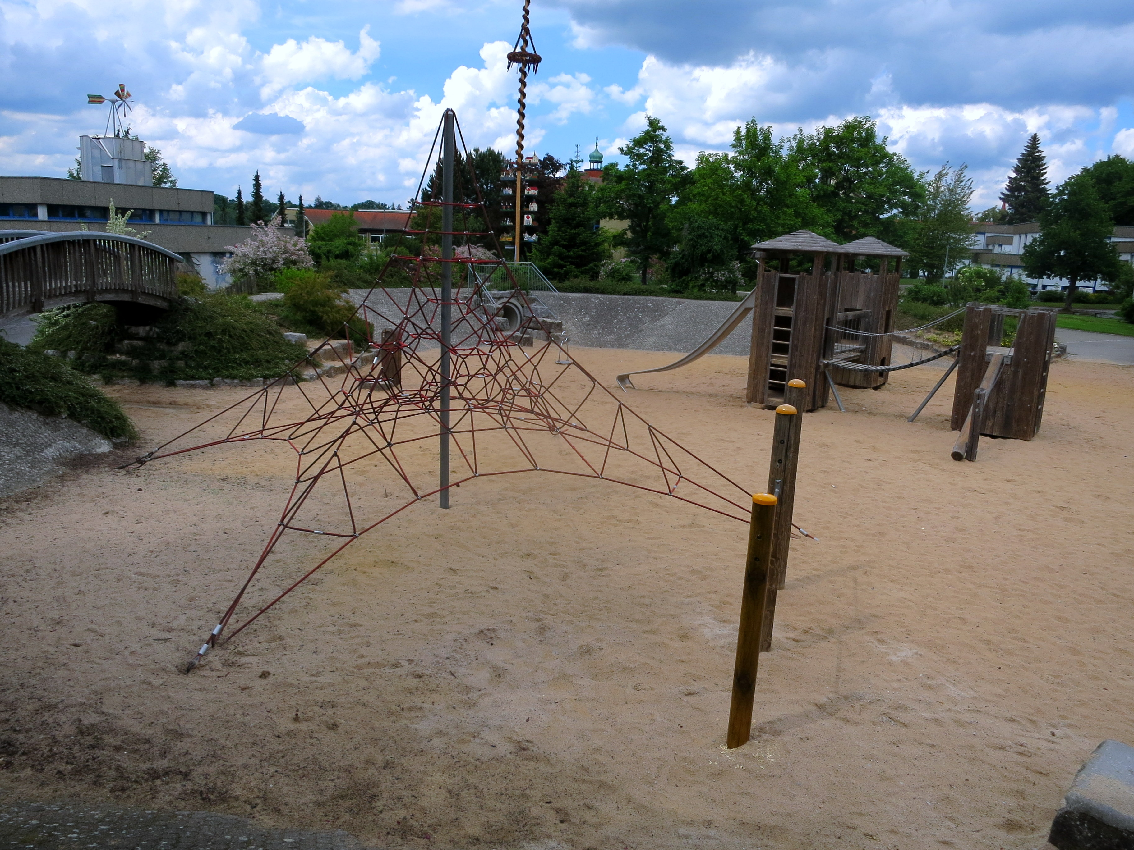 Village for children - pictures of the site Marienpflege Ellwangen